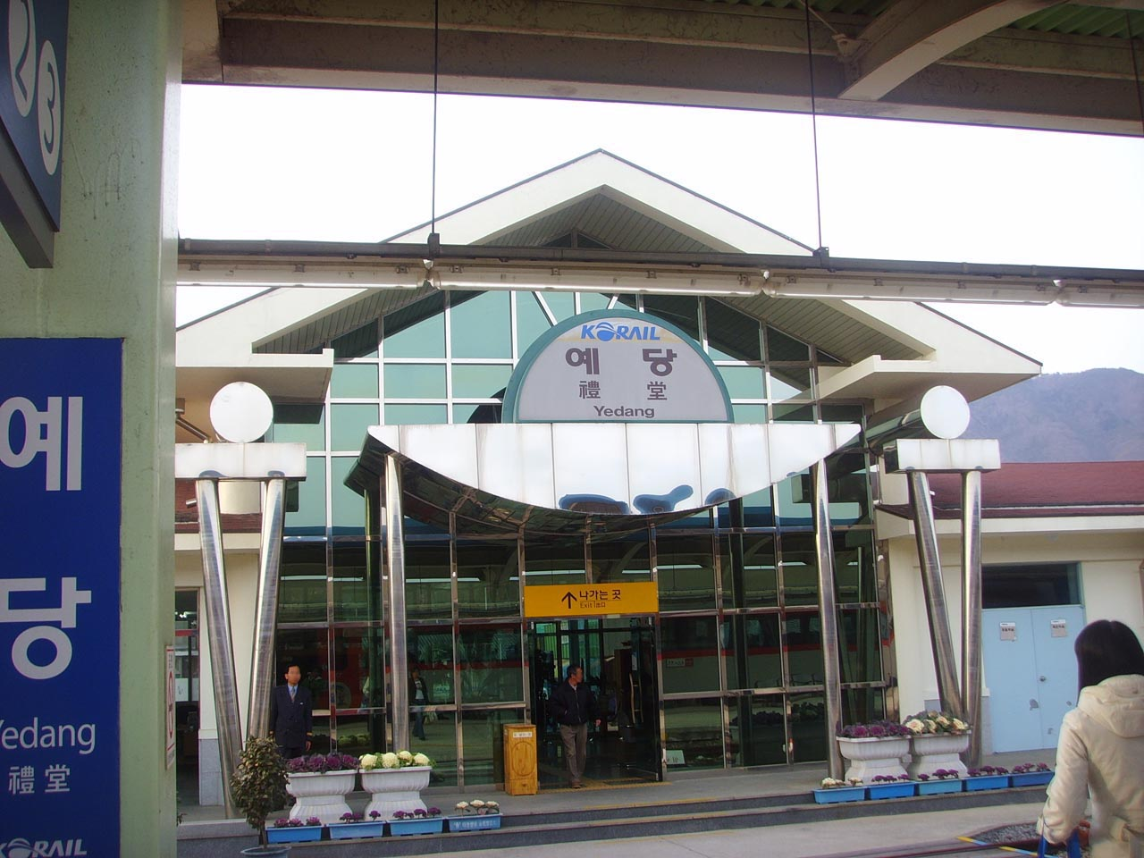 Yedang Station (Gyeongjeon Line), (Deungnyang-myeon, Boseong-gun, Jeollanam-do, South Korea)